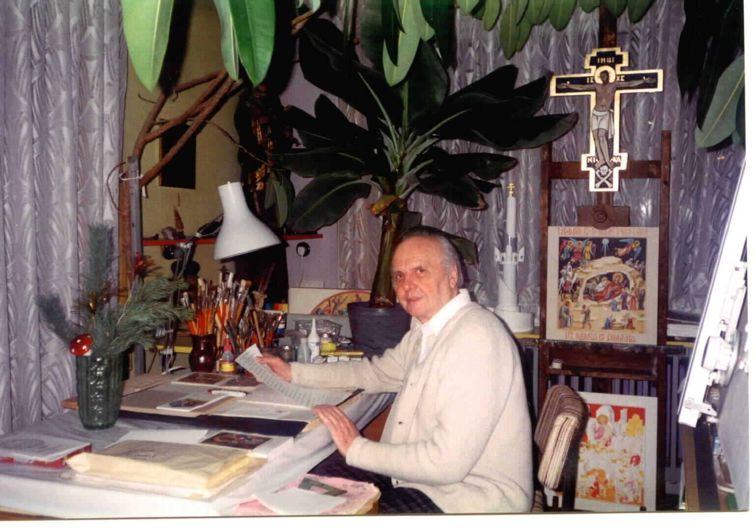 Nicholas (Mikulas) Klimčák in his studio in his native home in Humenne